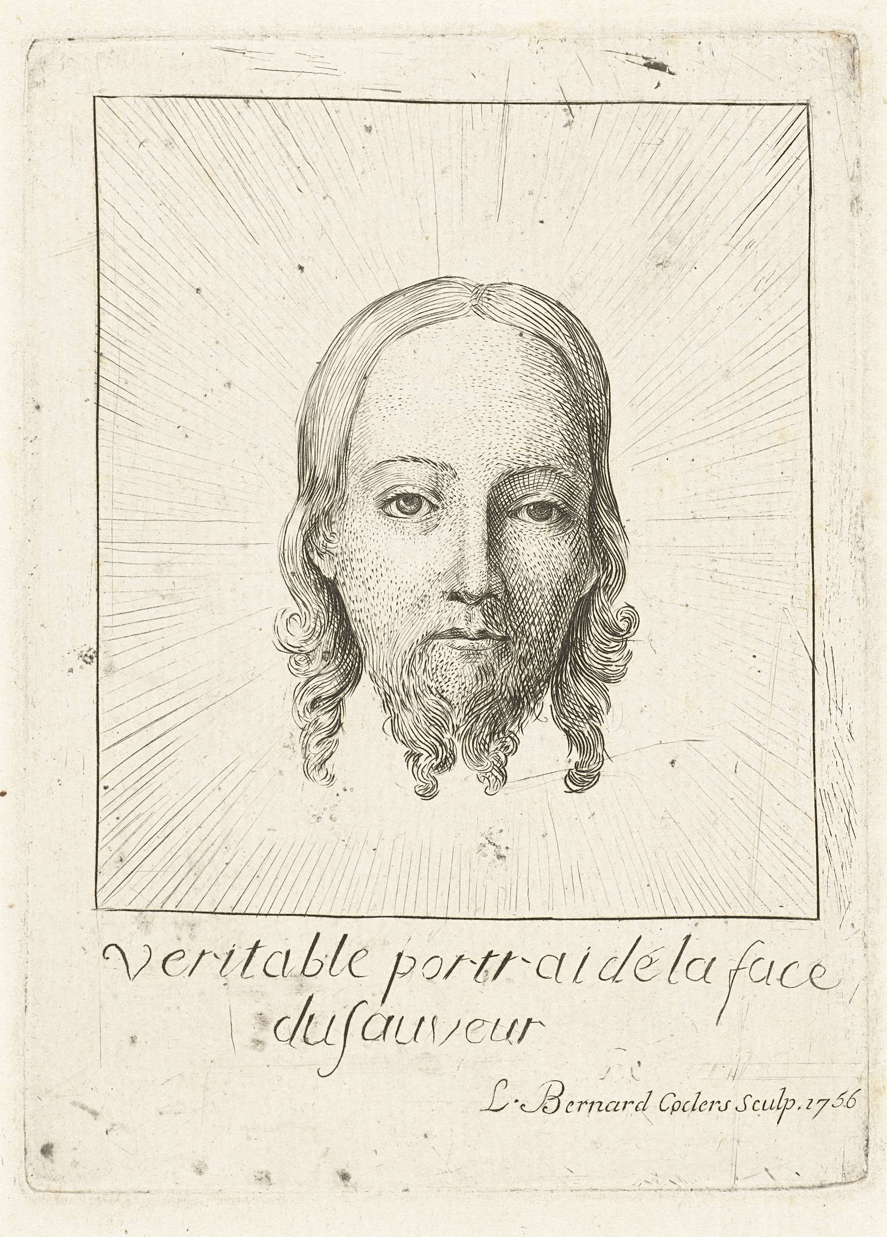 Engraving of the head of Christ, copied from Jan van Eyck's Vera Icon, previously in the Church of St. Servatius in Maastricht, Netherlands. Collection: Rijksmuseum Amsterdam, RP-P-1893-A-18120.